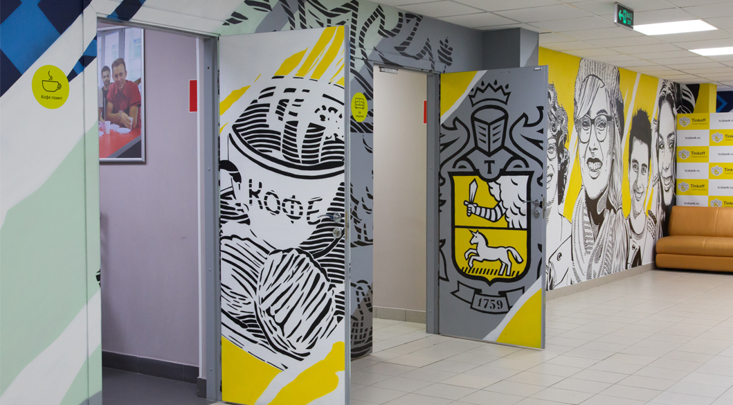 Tinkoff Bank office in Moscow